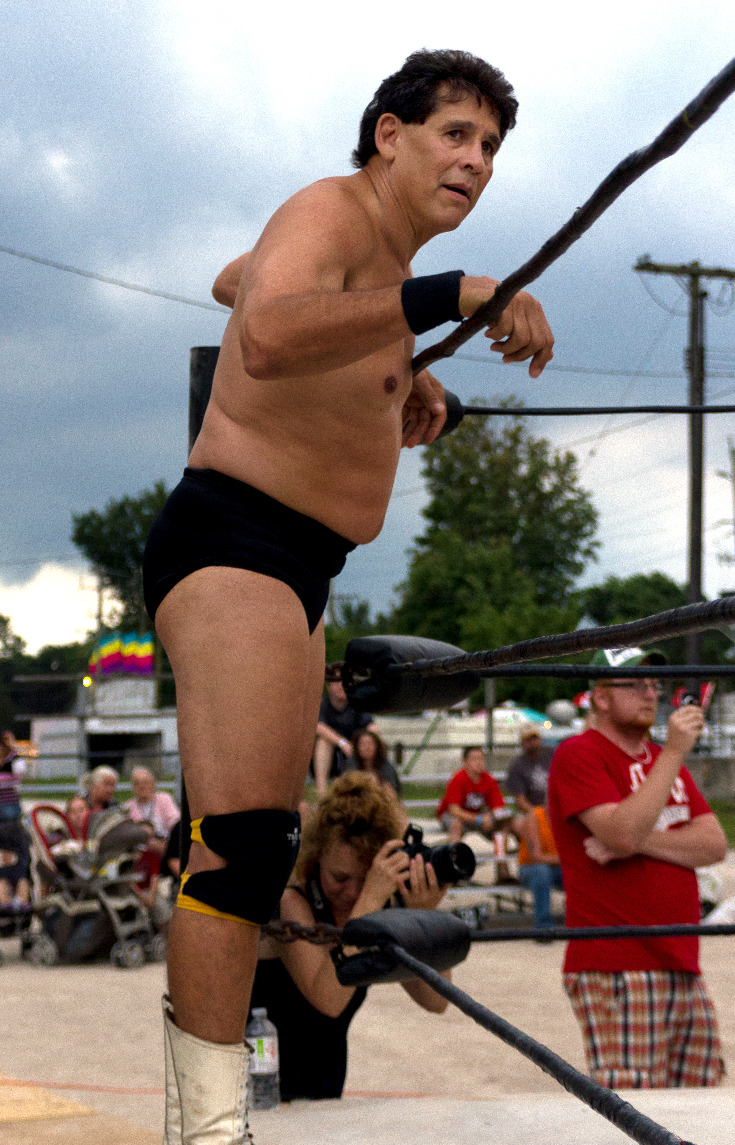 Tito Santana during a match for Classic Championship Wrestling in Tillsonburg